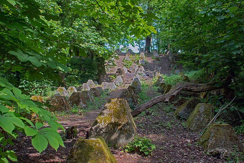 "Dragons teeth" anti-tank obstacles by the River Wey near Guildford. Part of the GHQ Stop Line in World War 2 in anticipation of a German invasion.